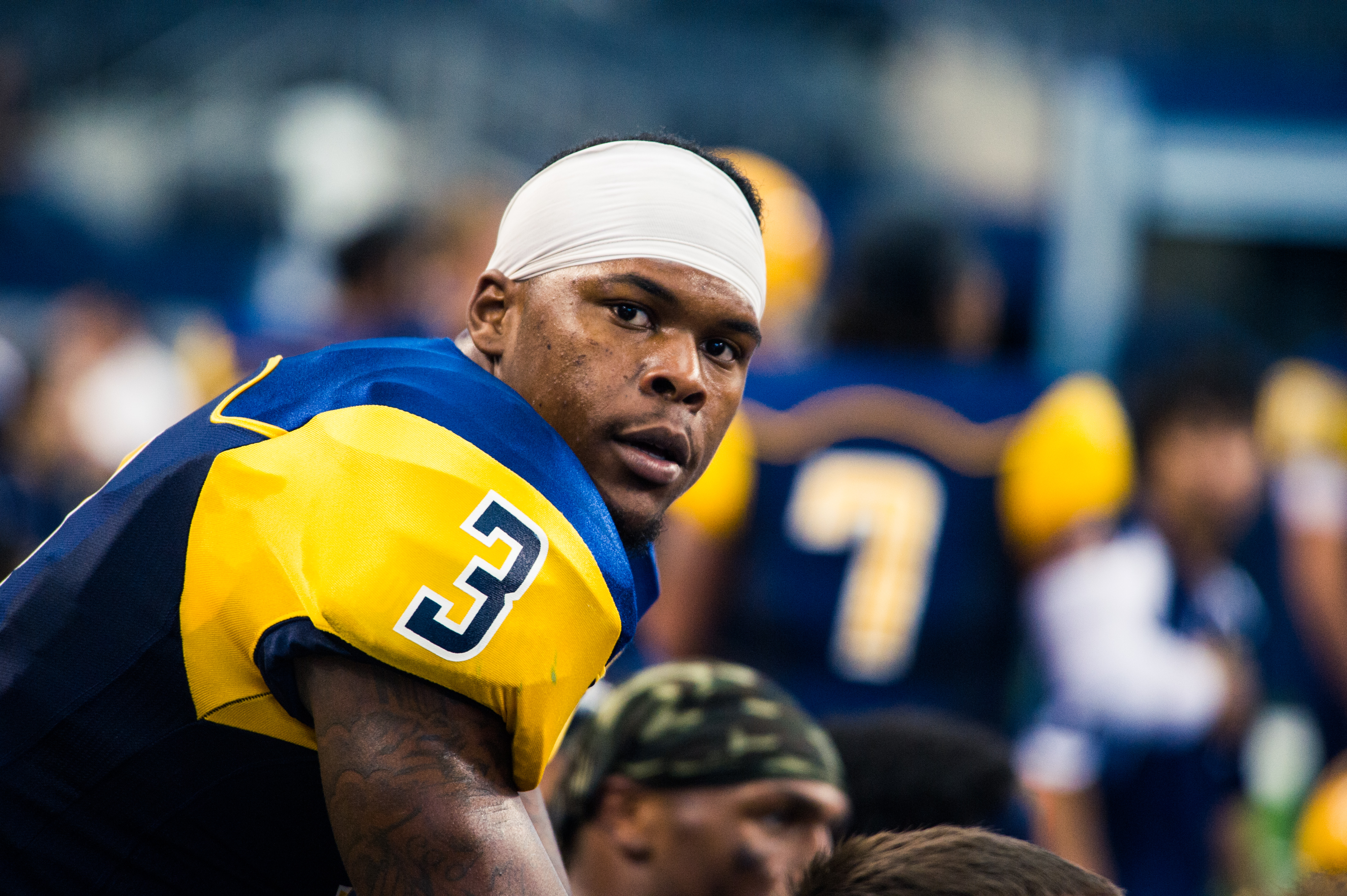 14453-LSC Football Festival-0417.jpg Scenes from the Texas A&M–Kingsville Javelinas vs. Texas A&M–Commerce Lions football game at AT&T Stadium in Arlington on September 20, 2014.